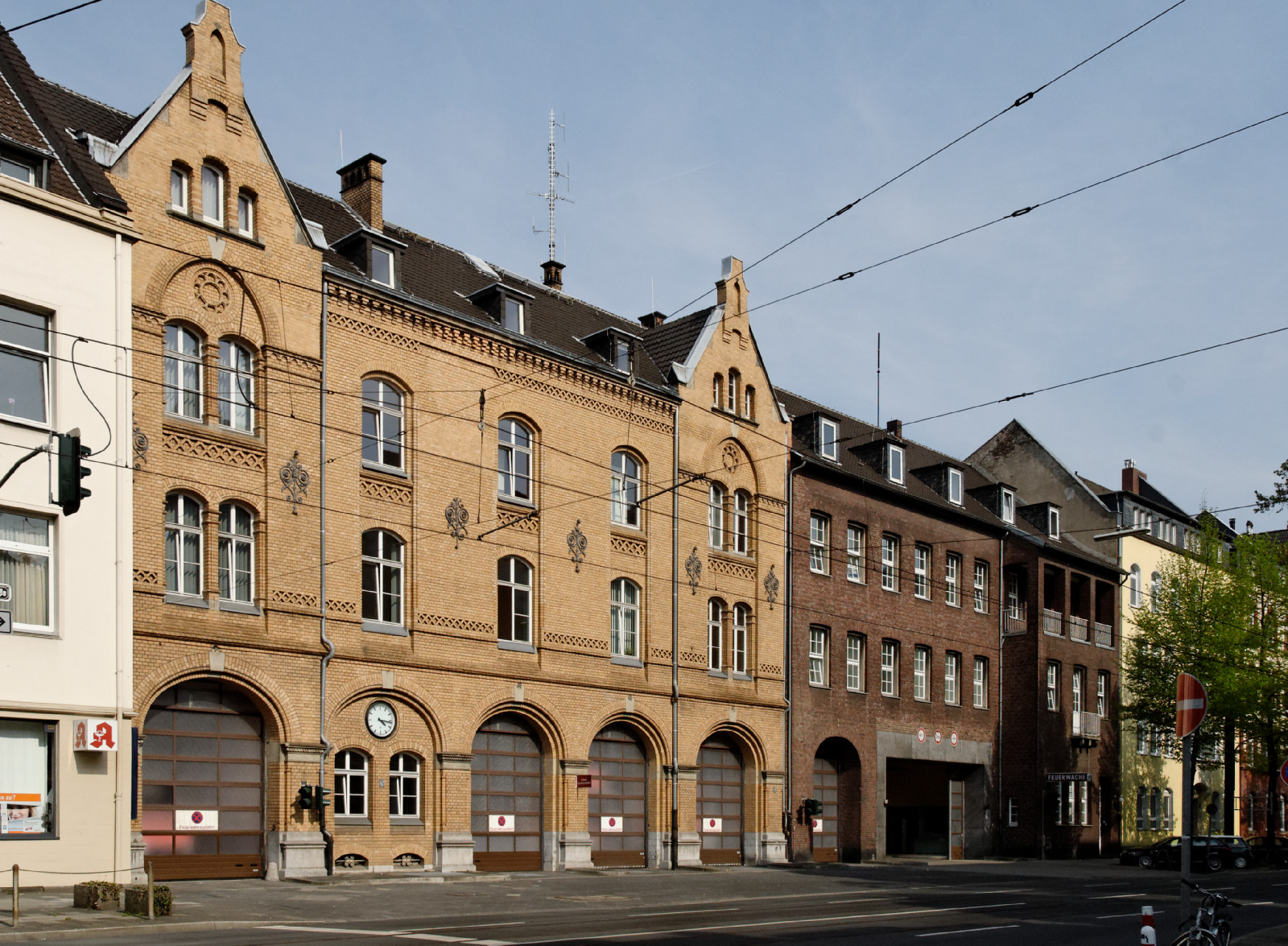 Fire station in Düsseldorf-Friedrichstadt, Germany